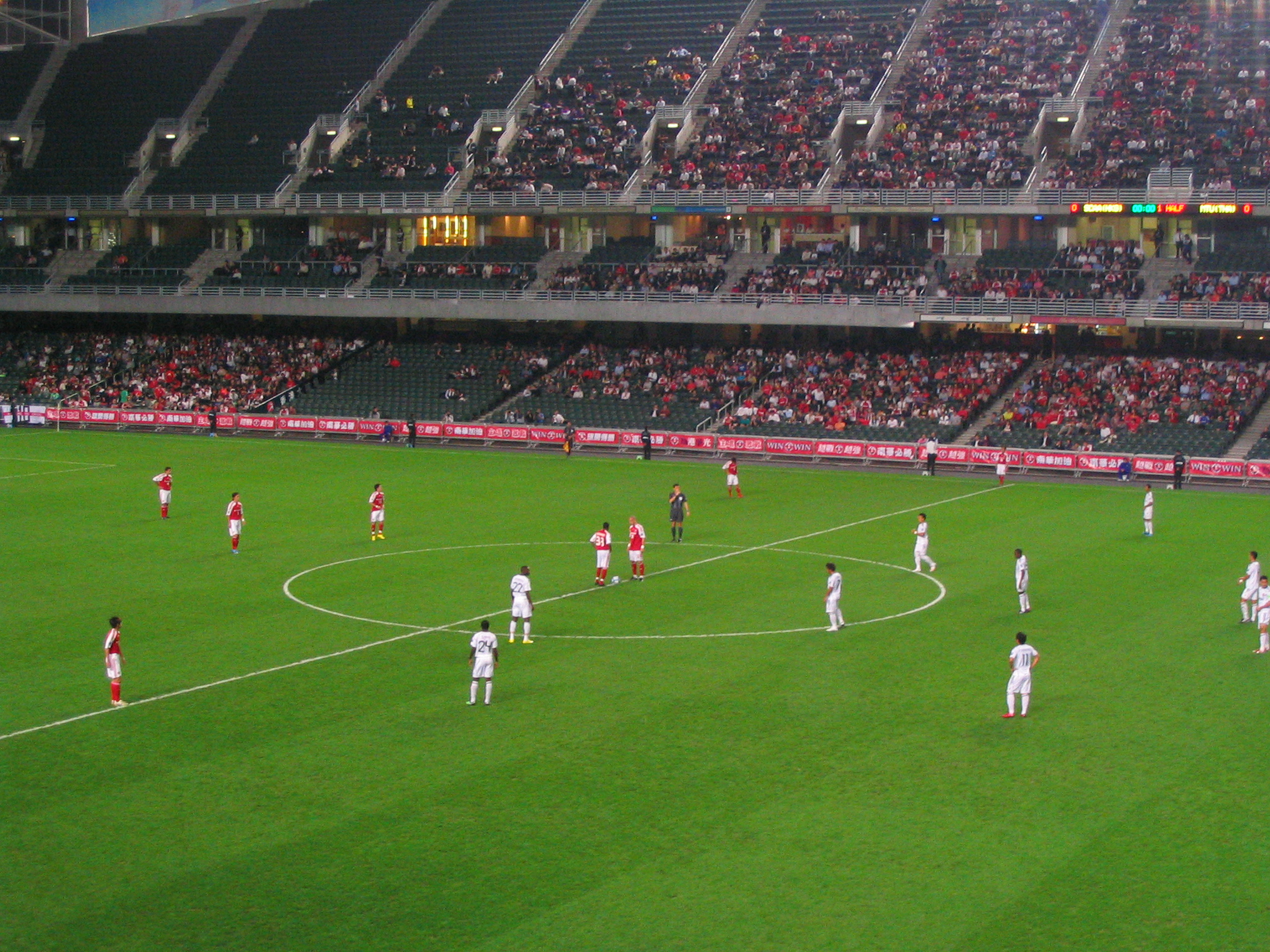 South China AA hosts Muang Thong United of Thailand in an AFC Cup Group G clash at the Hong Kong Stadium